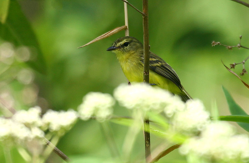 Yellow Tyrannulet (Capsiempis flaveola) near San Miguel, Costa Rica.